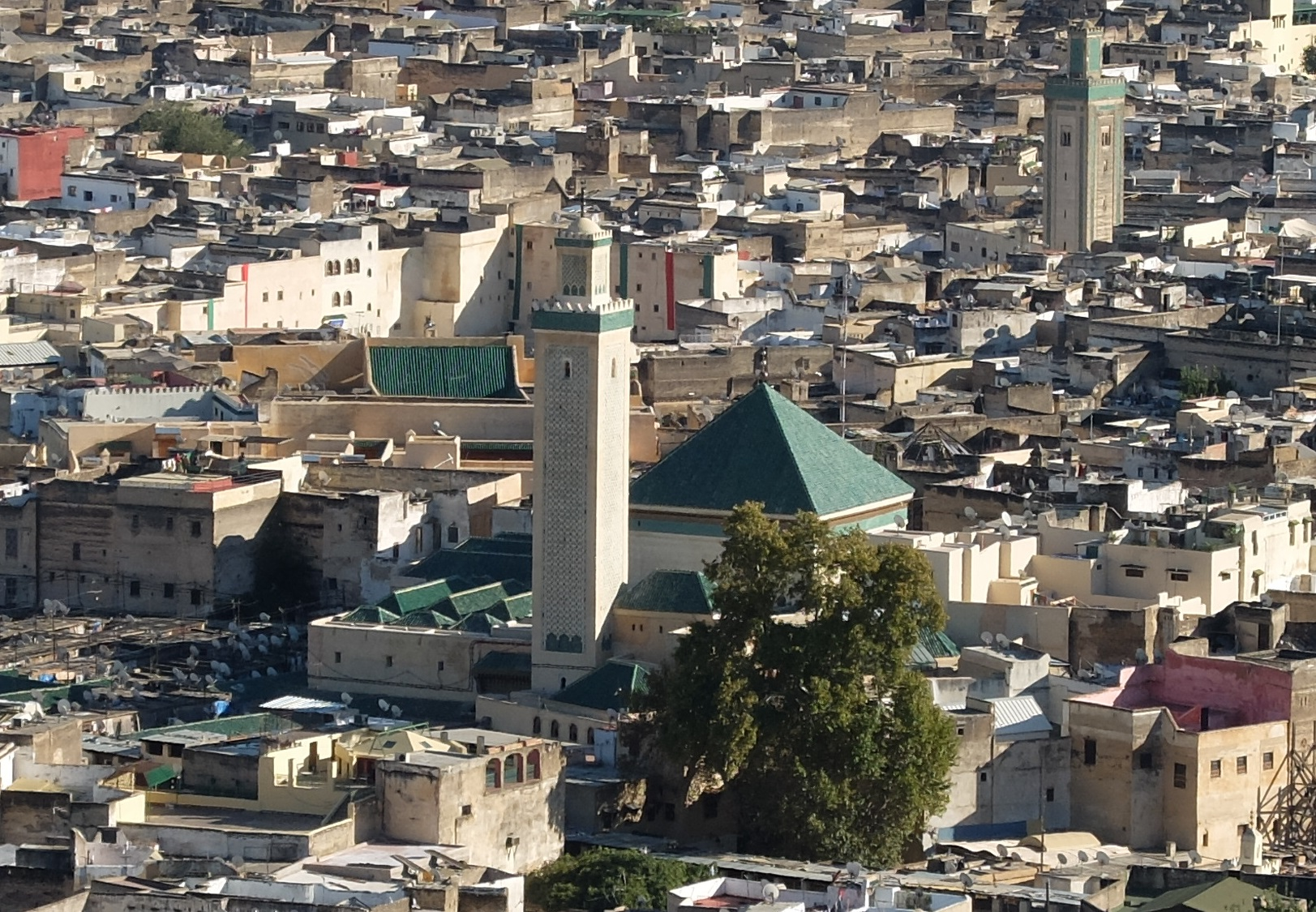 View of the Zawiya of Moulay Idris II from the Merenid Tombs north of the old city.